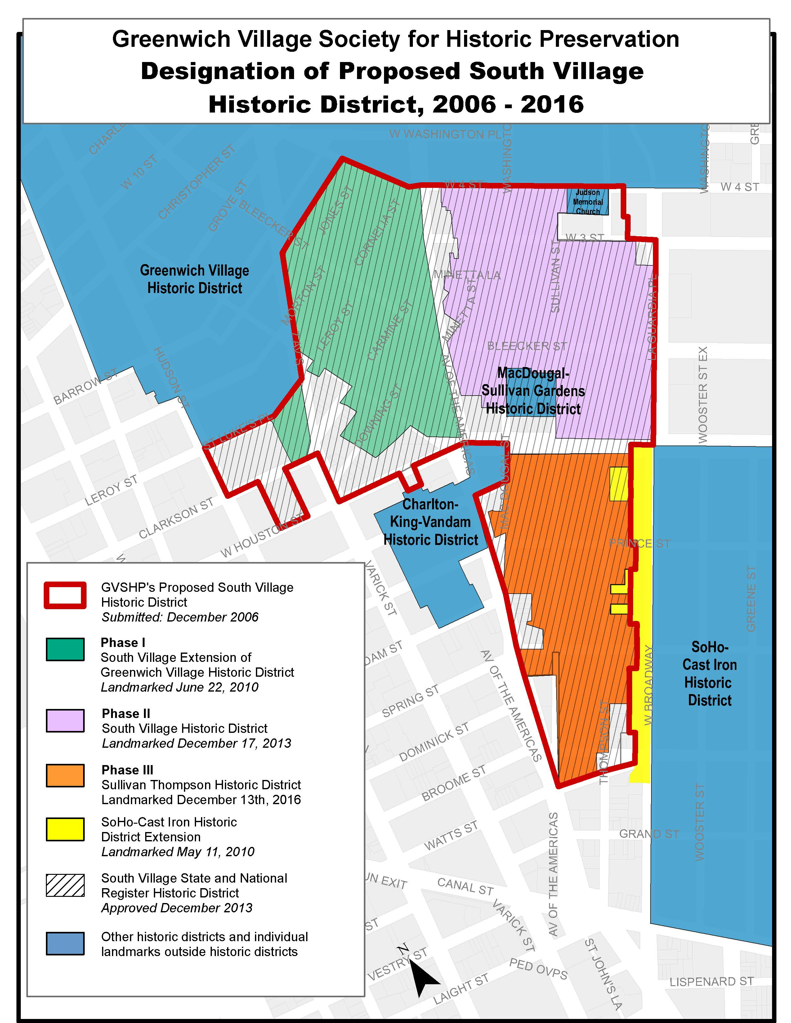 Proposed South Village Historic District, published by Village Preservation